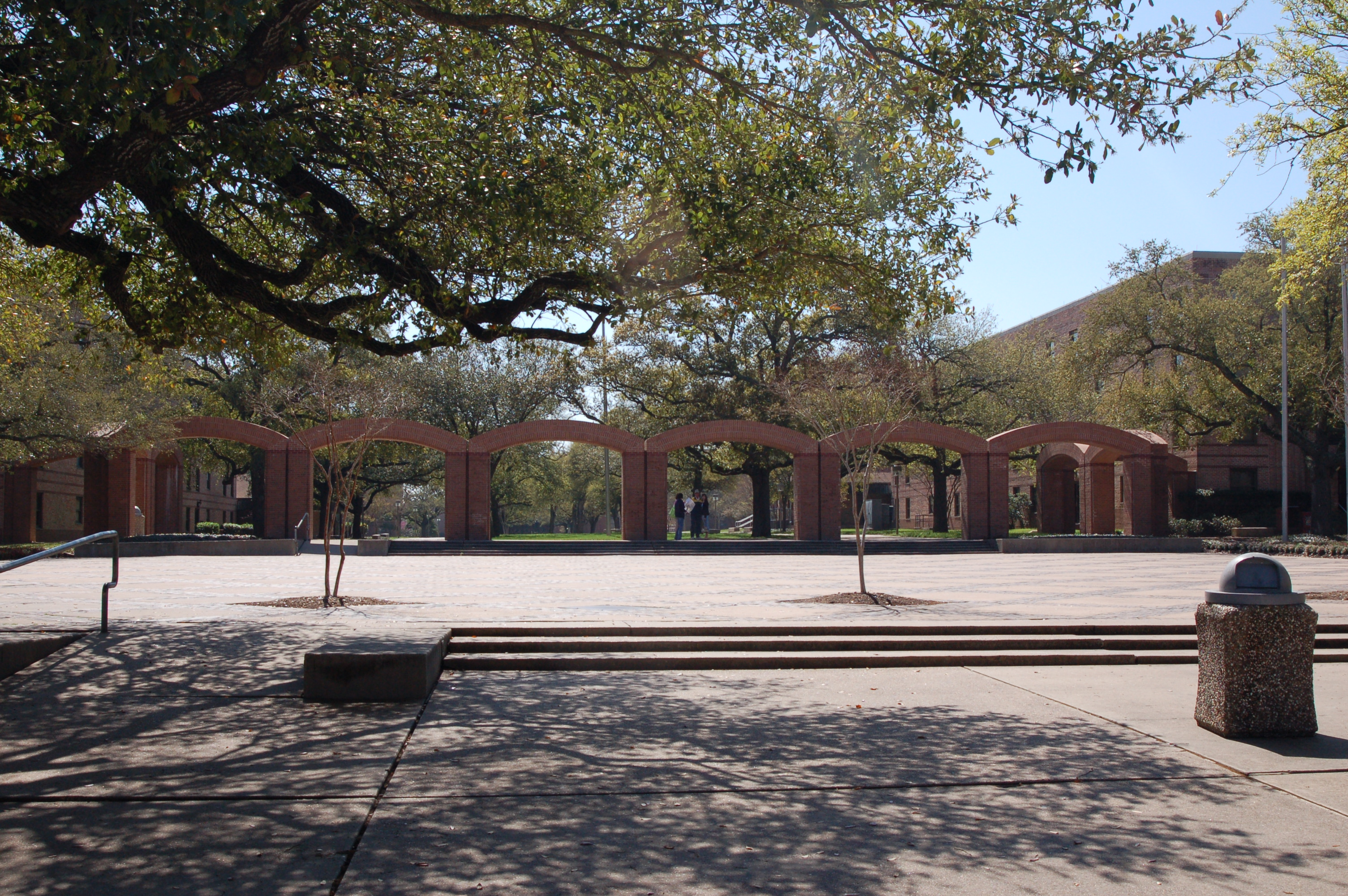 Texas A&M University Corps Arches